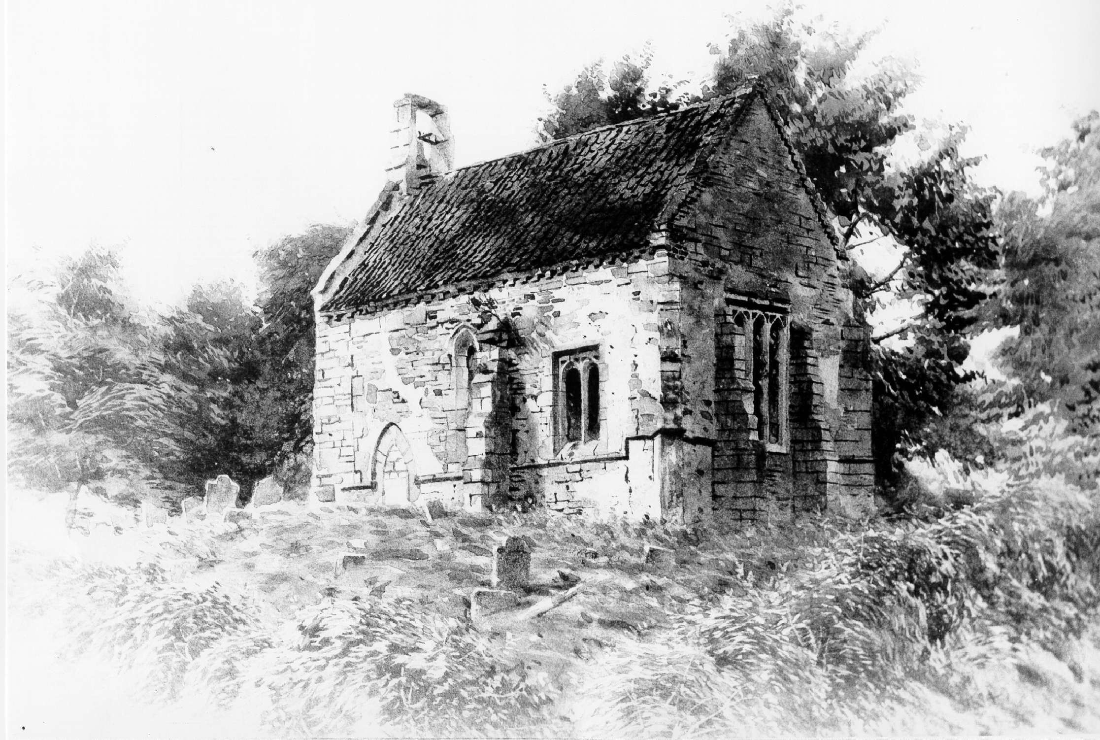 Painting of St Helen's parish church, West Burton, Nottinghamshire, currently in Nottinghamshire archives